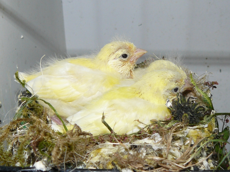 fife fancy - nest